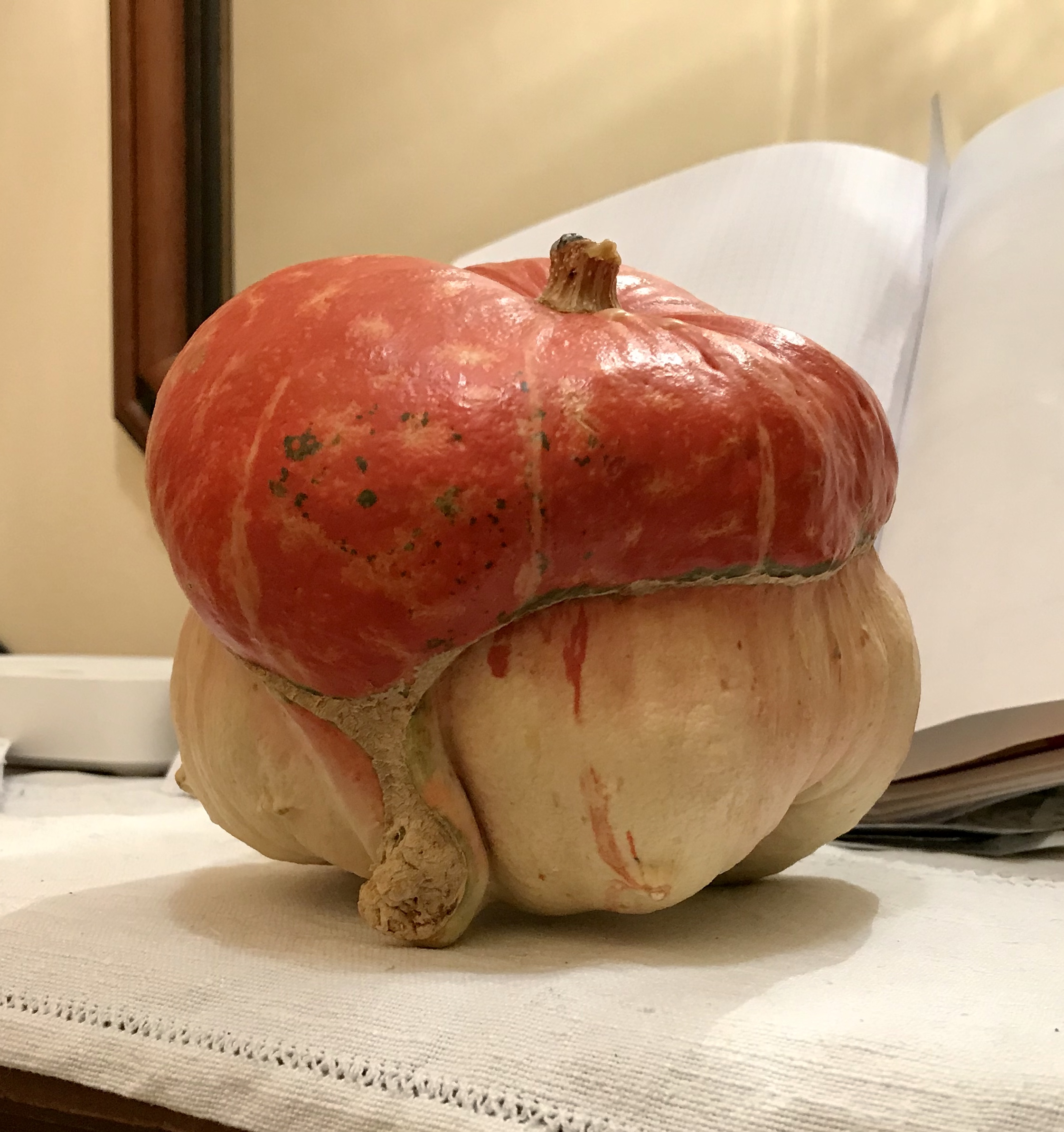 A very beautiful pumpkin ("Mini red turban" variety) from northern Italy. This pumpkin is a different cultivar than the similar "Turk’s turban" pumpkin (or "Turban" gourd).